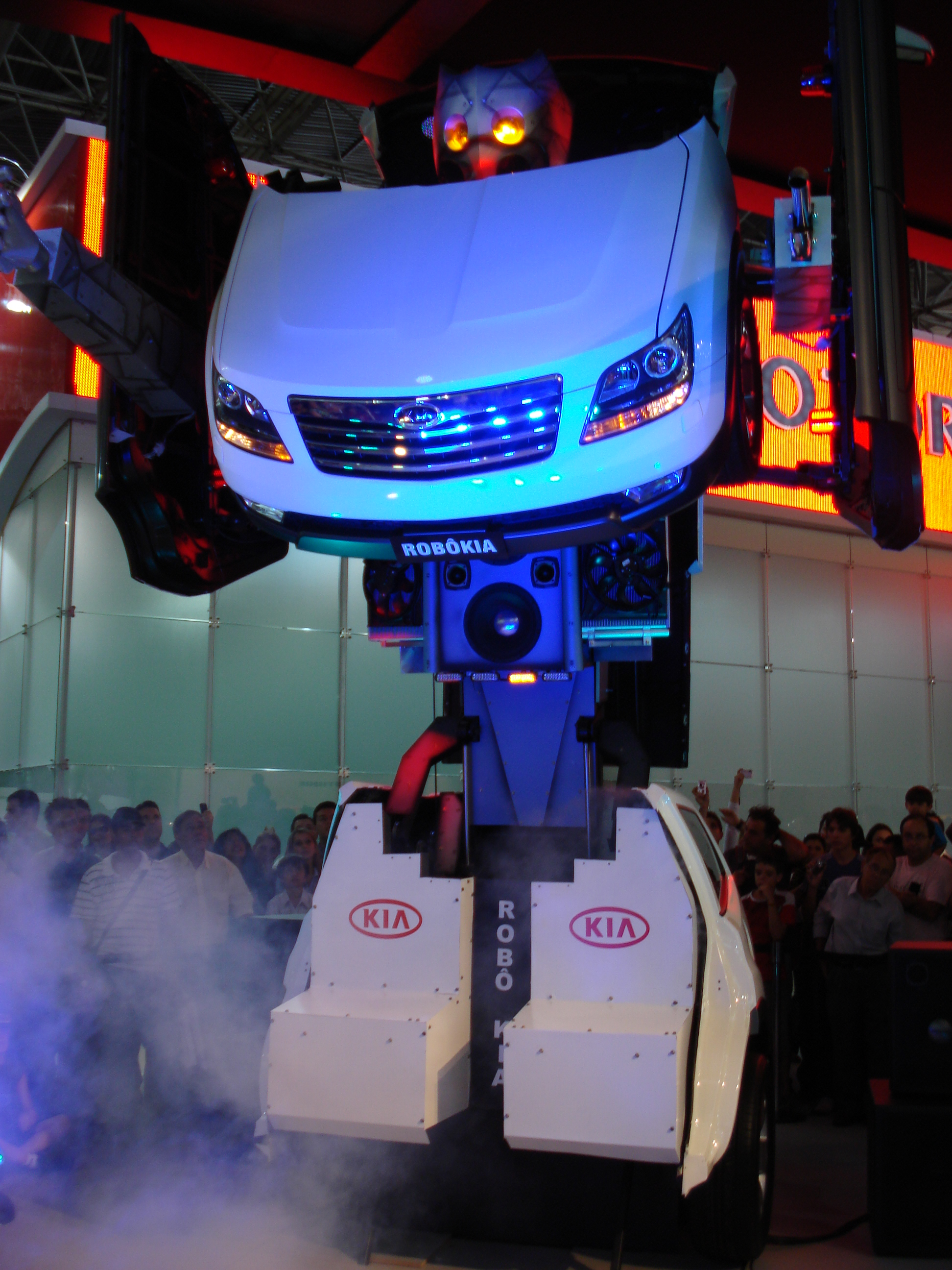 Robokia